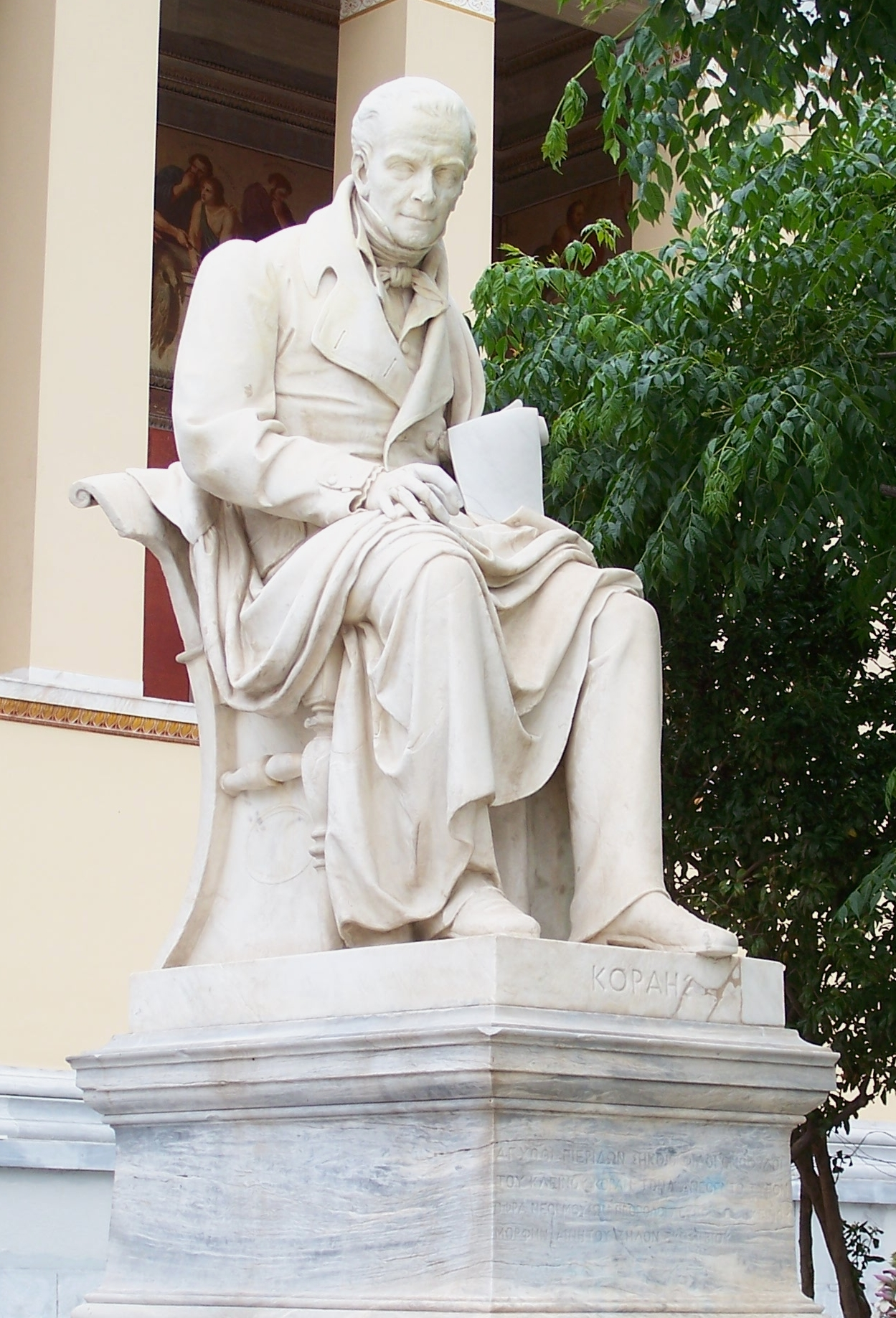 Statue of Adamantios Korais at the side of the Old Parliament in Athens. Το άγαλμα του Αδαμάντιου Κοραή στο Πανεπιστήμιο.